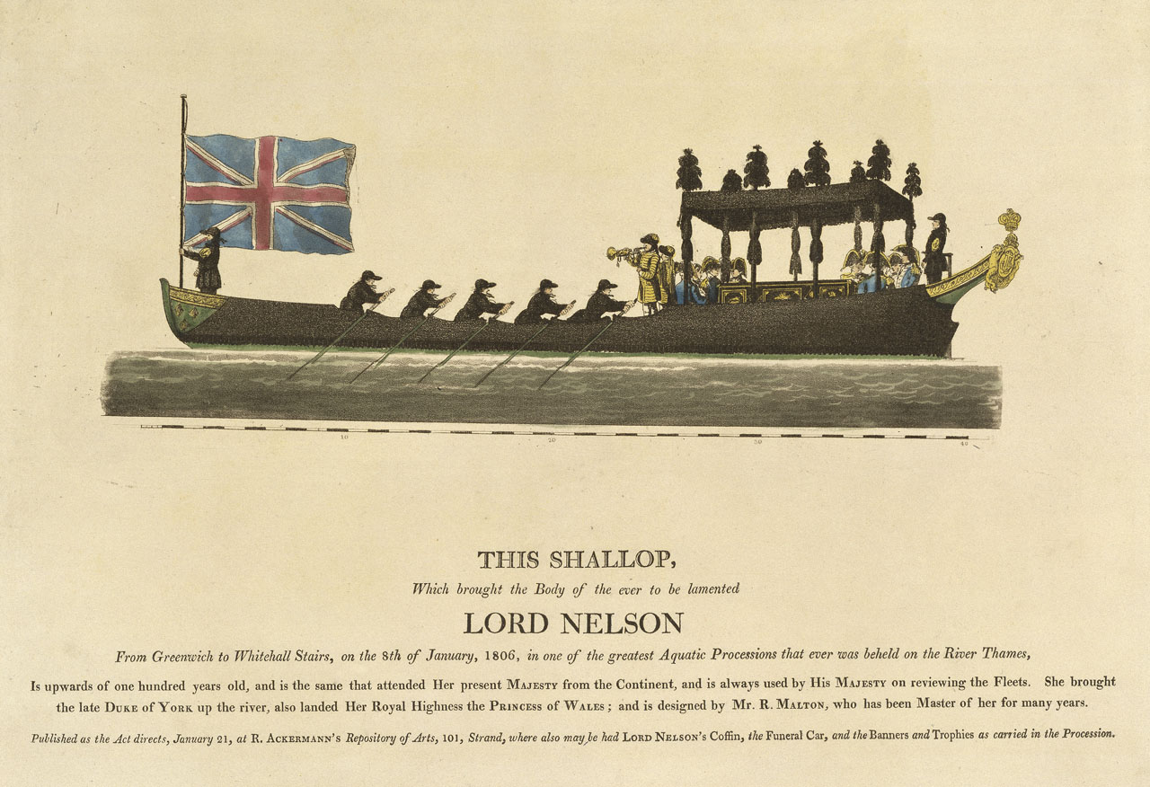 Description: Print of the royal barge carrying Admiral Nelson's body along the River Thames from Greenwich to Whitehall. Date: 1806 Our Catalogue Reference: LC 2/40 This image is from the collections of The National Archives. Feel free to share it within the spirit of the Commons. For high quality reproductions of any item from our collection please contact our image library.